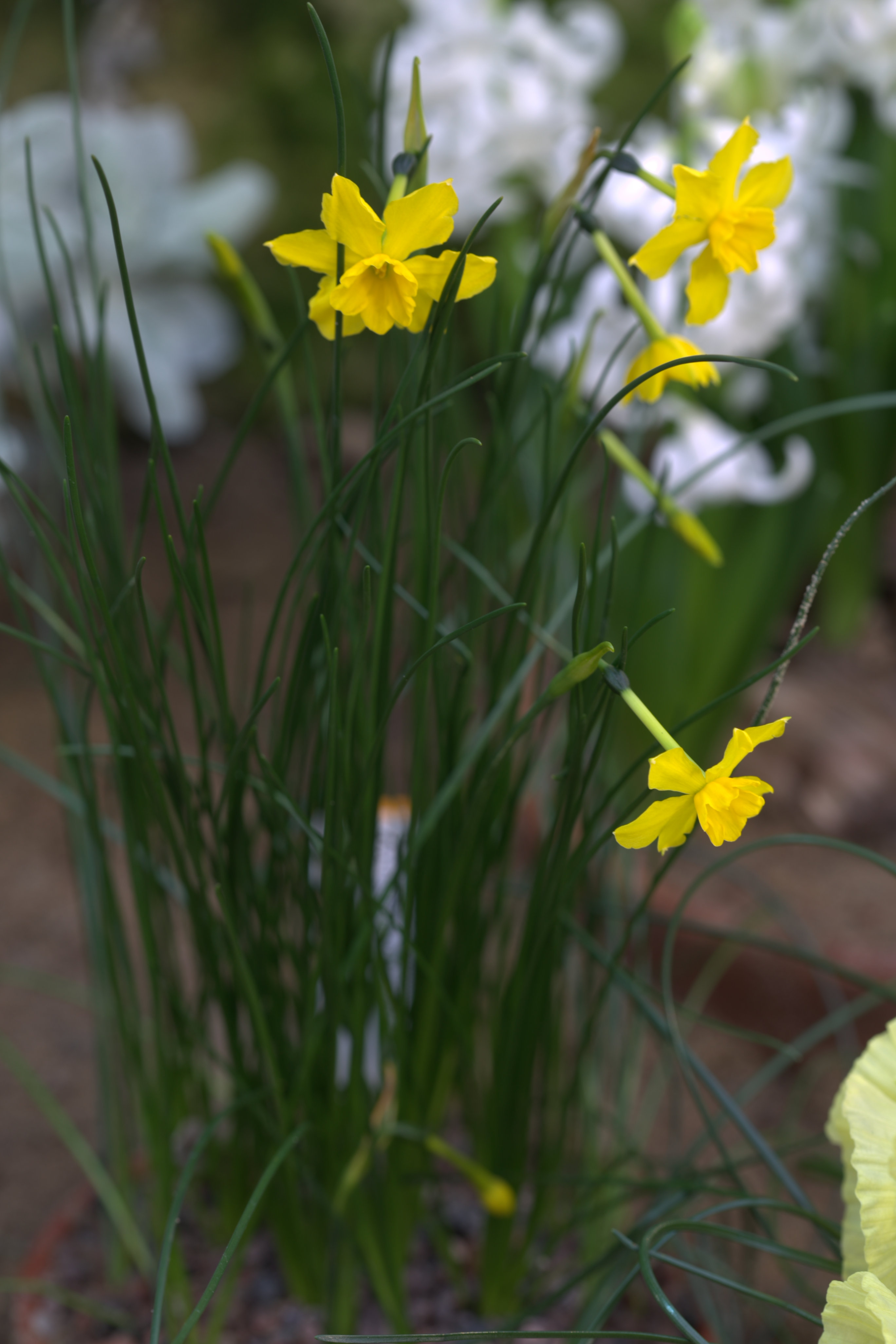 Narcissus jonquilla in Gotheburg Botanical Garden. Plant id: 1997-1339 s Z